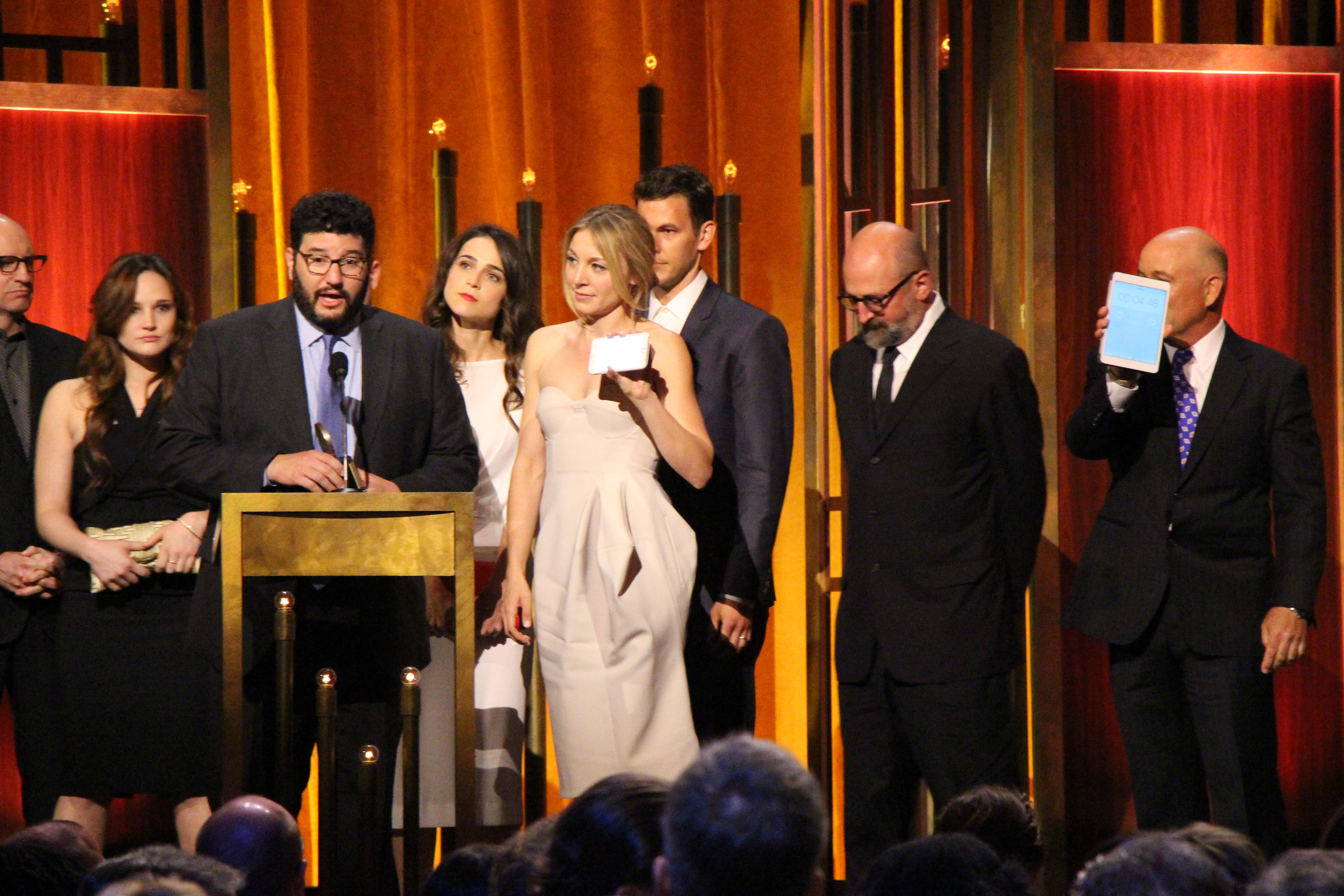 Writer and Producer Jack Amiel accepts the Peabody for The Knick. He was accompanied by (from left to right) Steven Soderbergh, Jo Armeniox, Maya Kazan, Juliet Rylance, Tom Lipinski, Steven Katz and Michael Polaire.